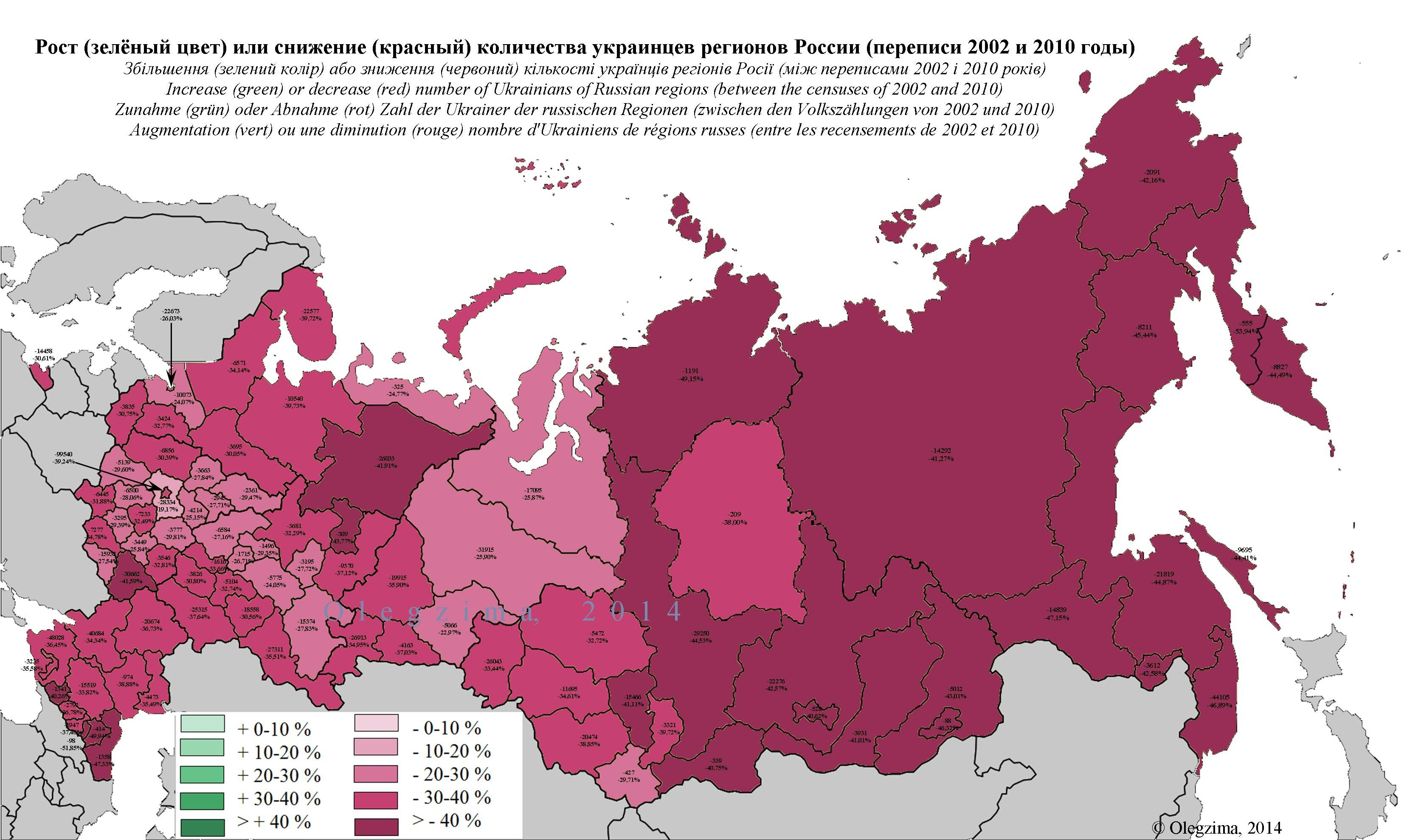 Increase (green) or decrease (red) number of Ukrainians of Russian regions (between the censuses of 2002 and 2010)